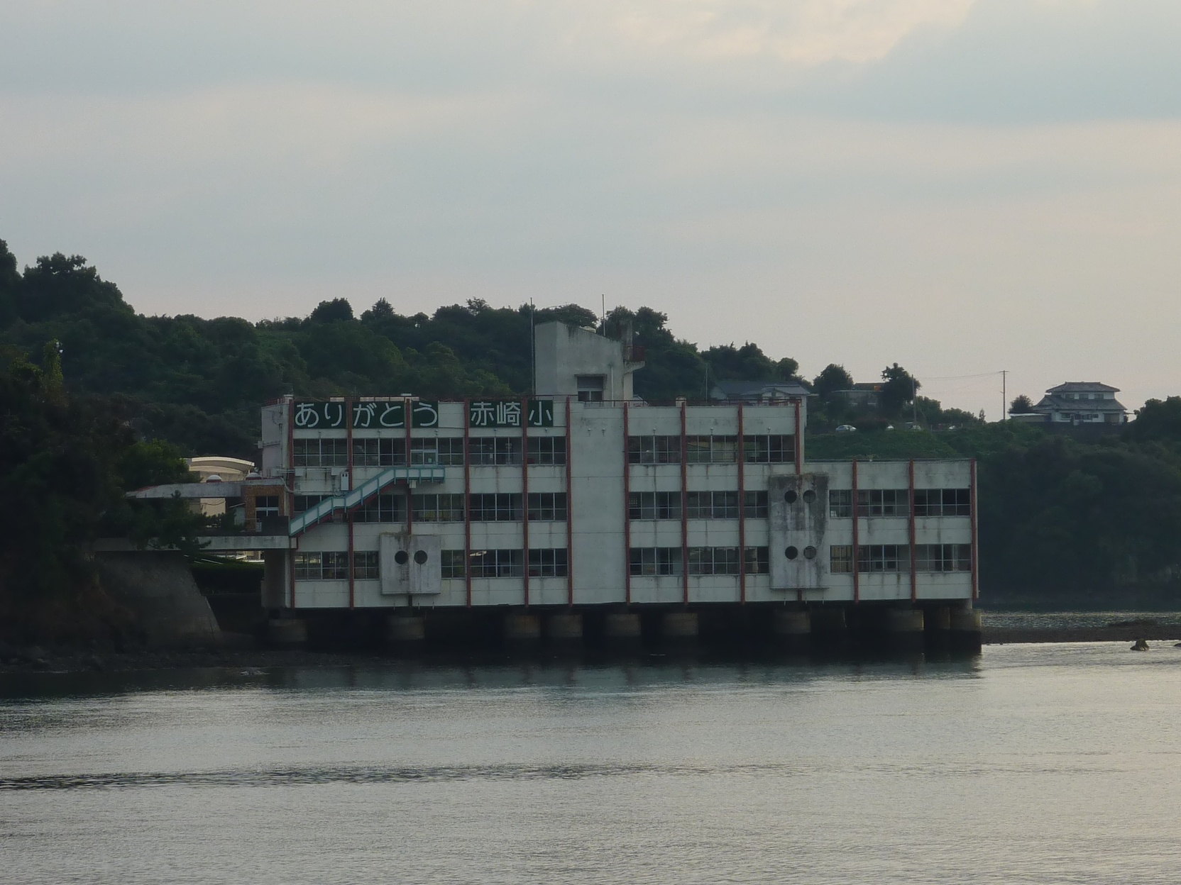 Ruin of Akasaki Elementary School (Tsunagi Town, Kumamoto Prefecture, Japan)